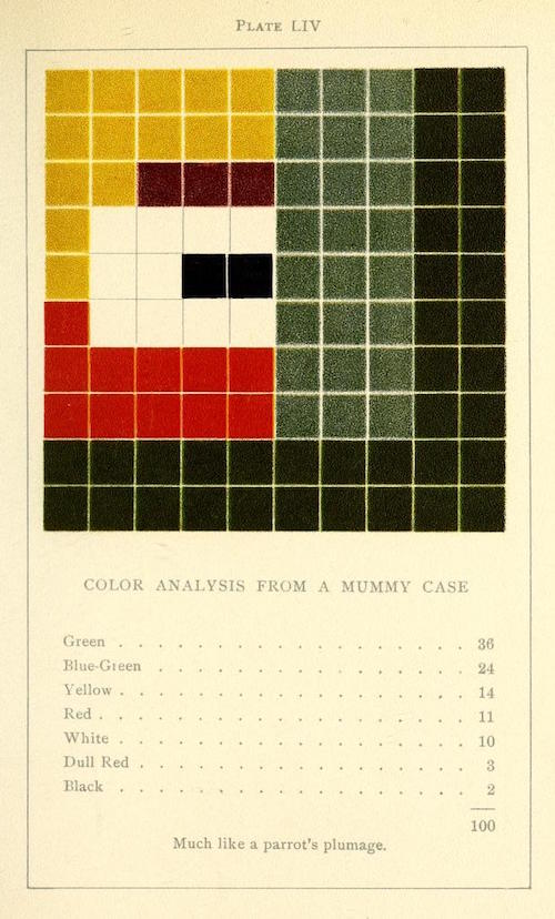 these wonderful 1902 colour charts are taken from Color problems: A practical manual for the lay student of color, a book by the American artist Emily Noyes Vanderpoel (1842-1939).